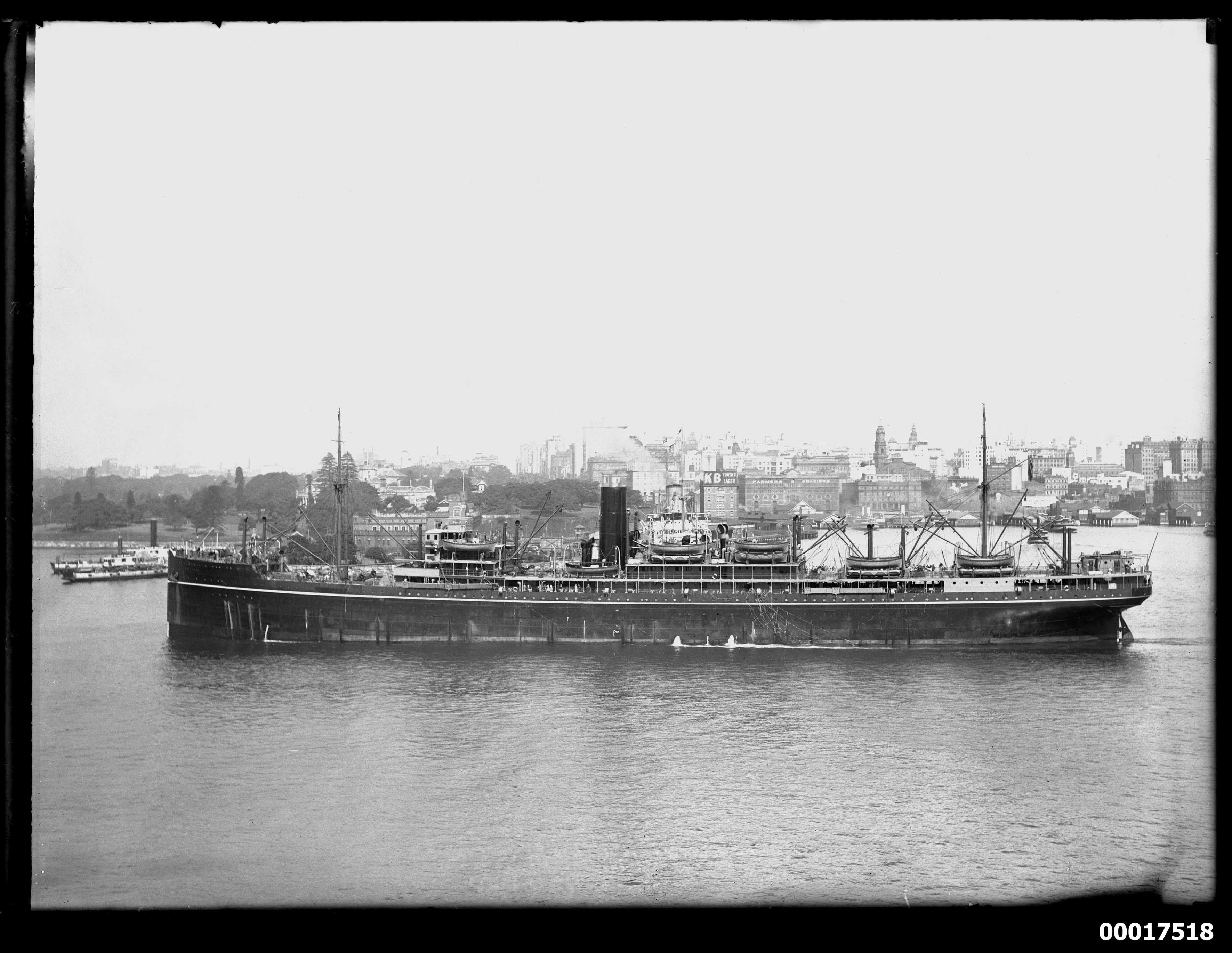 If reproduced or distributed, this image should be clearly attributed to the collection of the Australian National Maritime Museum; and not be used for any commercial or for-profit purposes without the permission of the museum. For more information see our Flickr Commons Rights Statement. The ANMM undertakes research and accepts public comments that enhance the information we hold about images in our collection. This record has been updated accordingly. Photographer: Unknown Object no. 00017518 ANMM Collection Gift from the Estate of Peter Britz